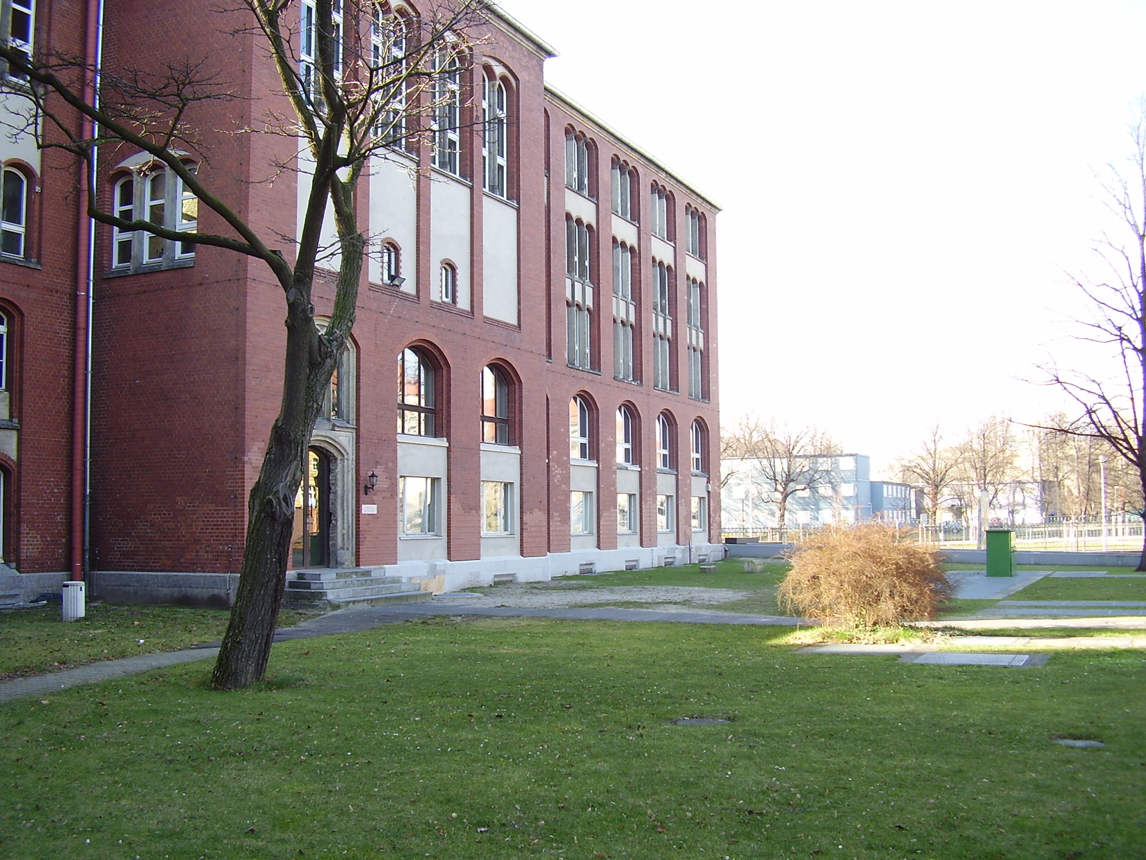 Berlin, Medical University, Hospital, Charité Campus Mitte (CCM)